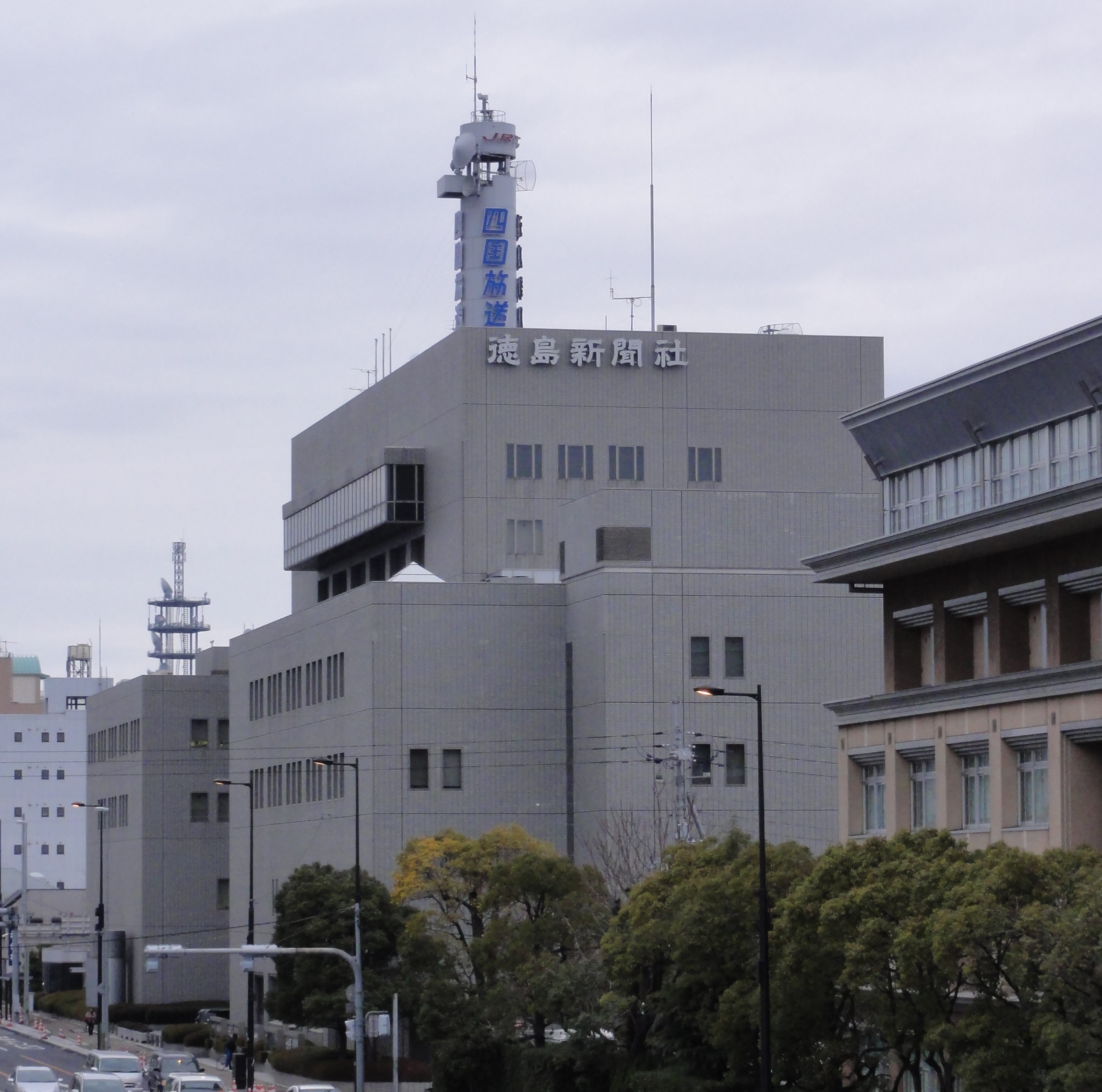 newspaper broadcasting hall,Tokushima Pref., Japan